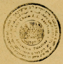 Personal stamp of Rabbi Chaim Yehuda Leib Auerbach